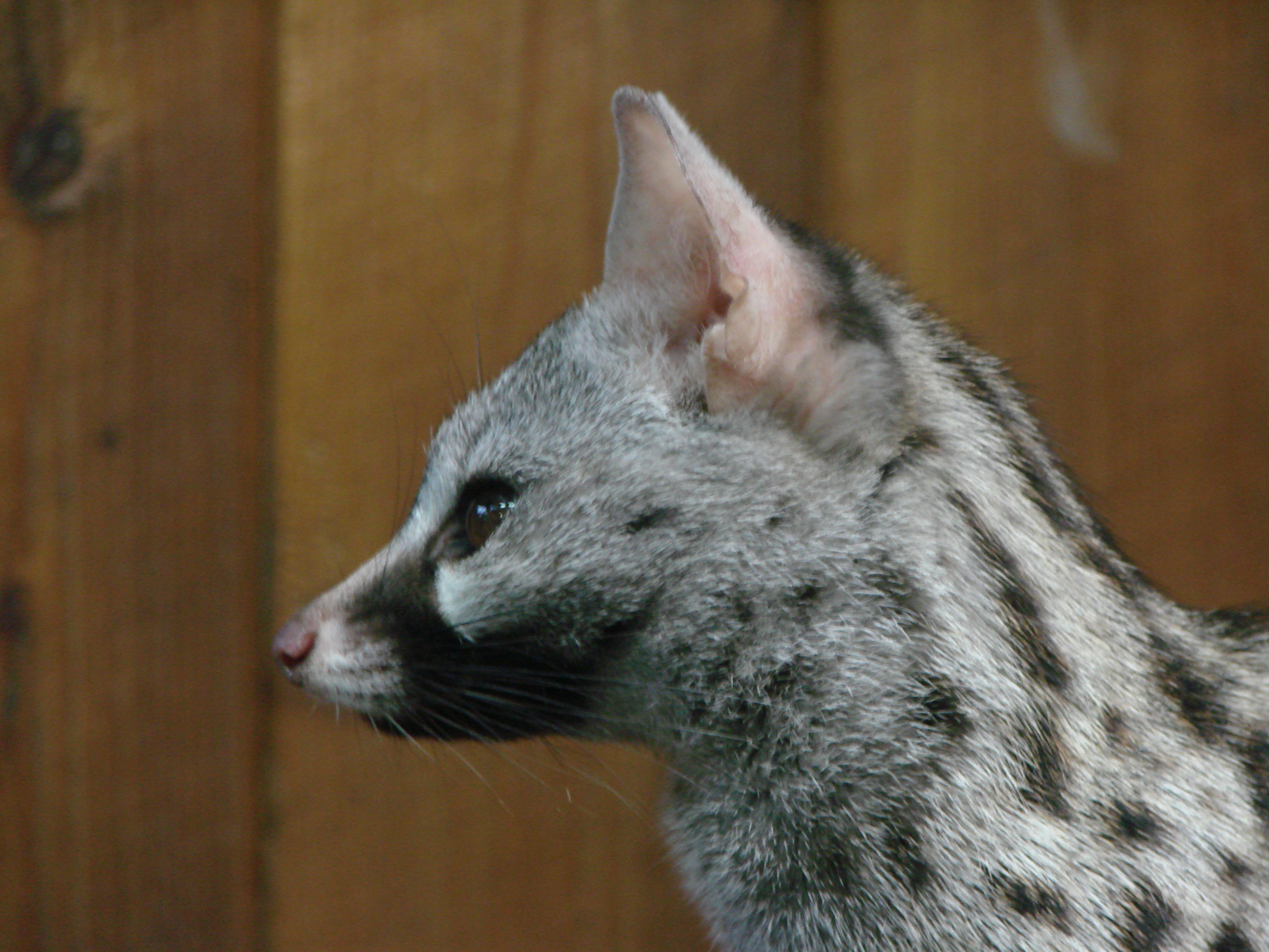 Animal species: Common Genet (Wrocław zoo)